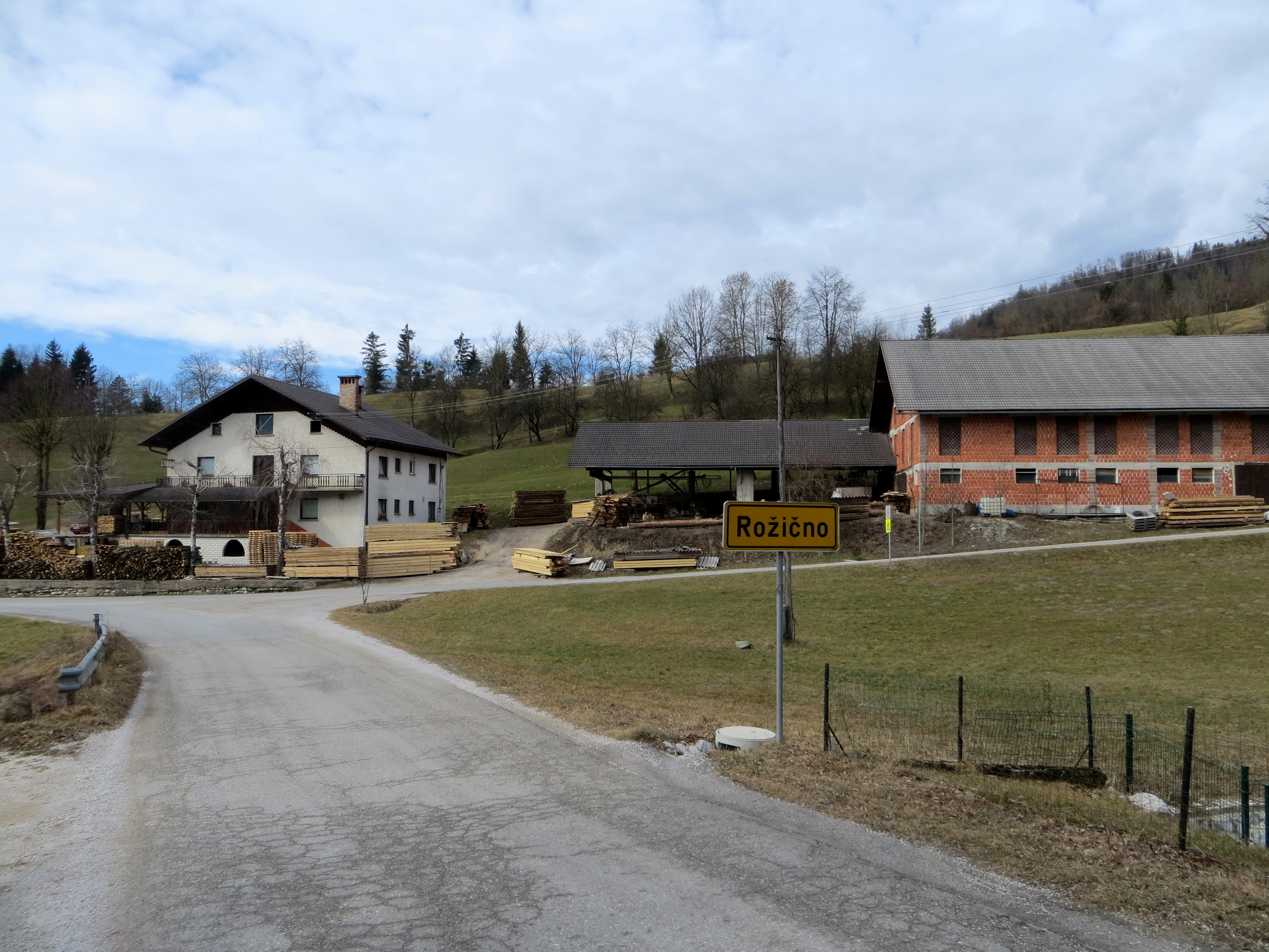 Rožično, Municipality of Kamnik, Slovenia